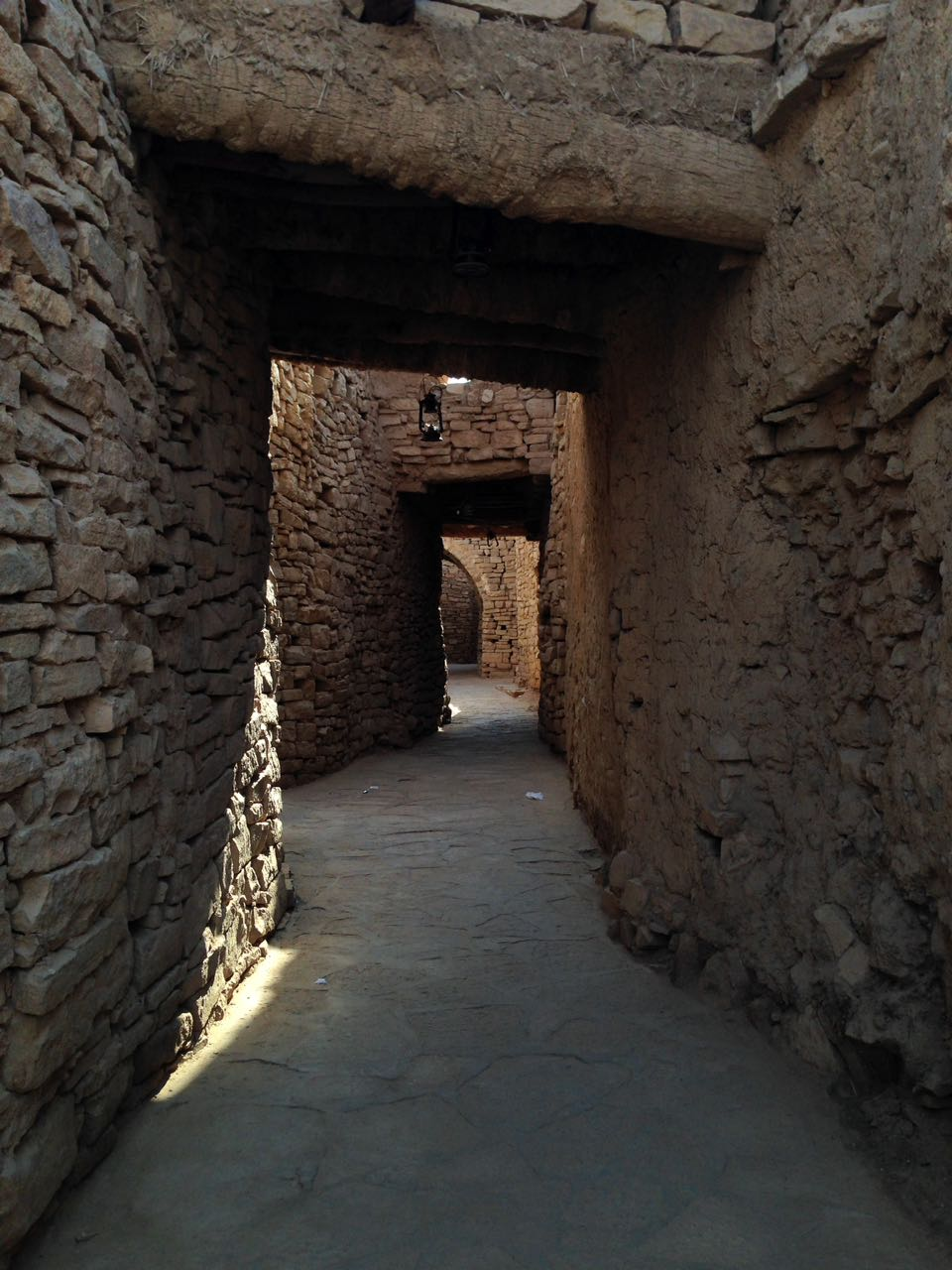 The ancient town inside Al Dar'i Quarter